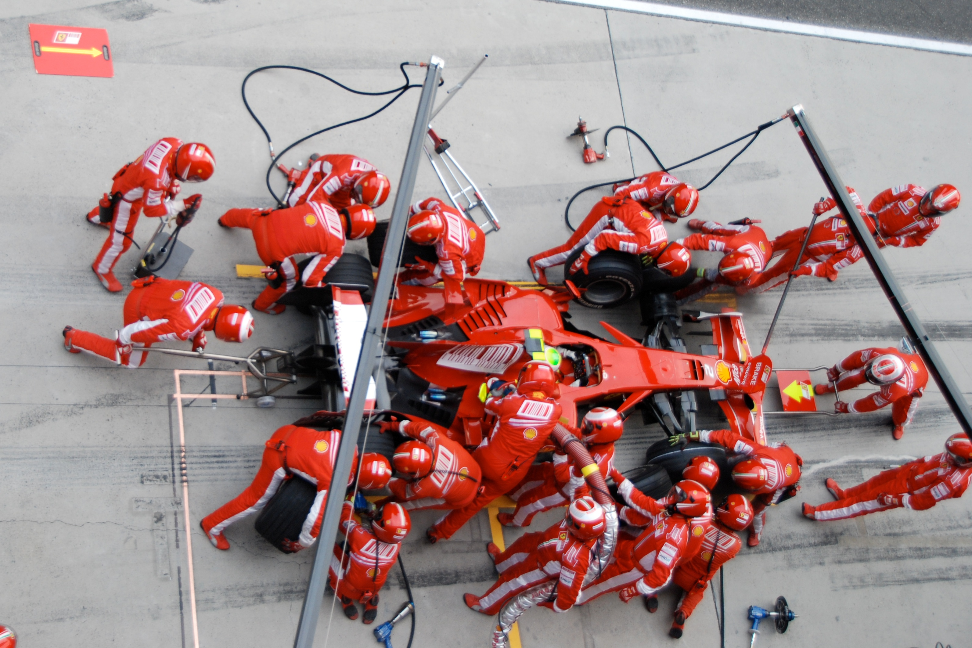 Pitstop underway for Felipe Massa at 2008 Chinese Grand Prix